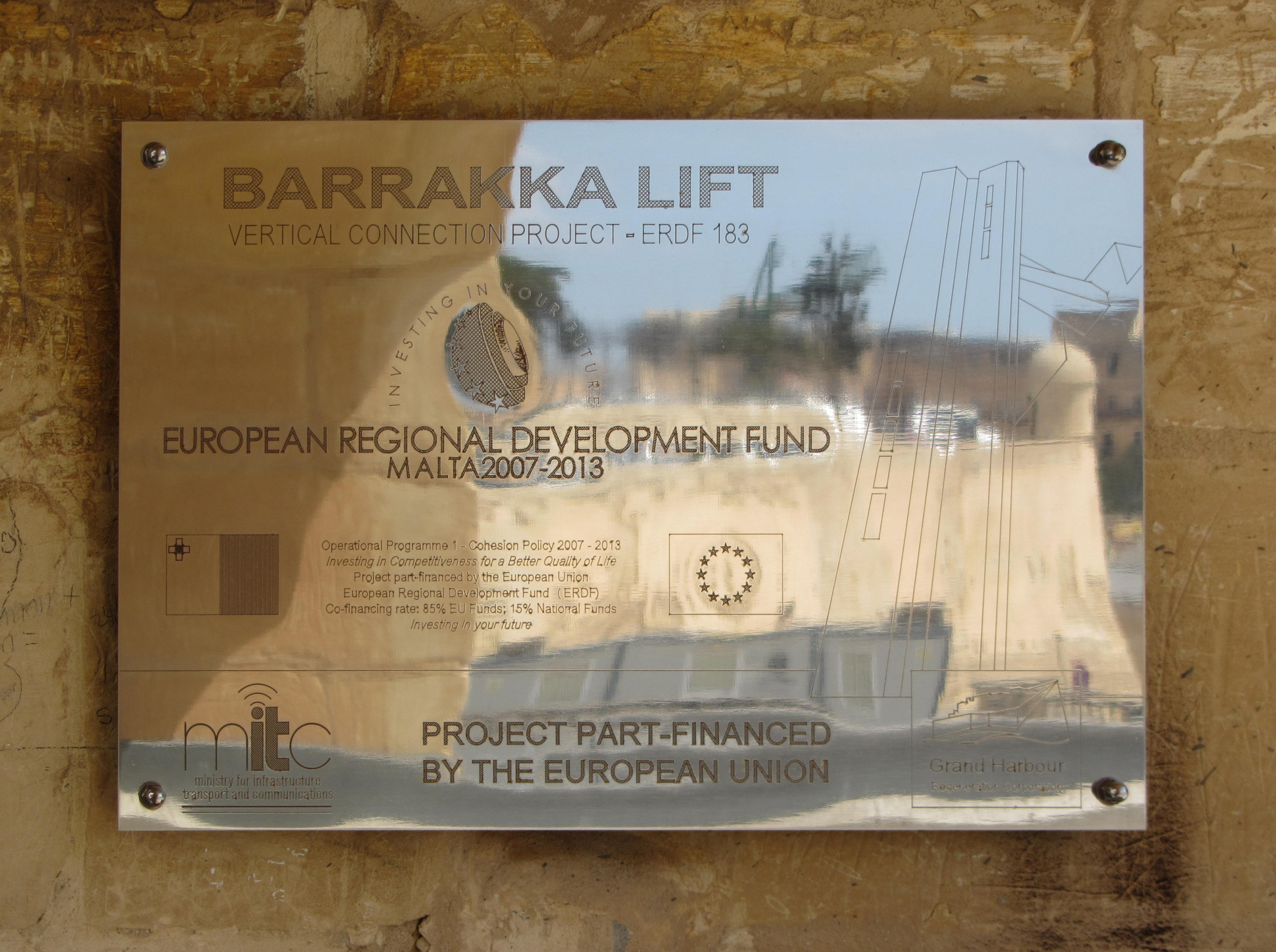 Sign at Upper Barrakka Lift works as a mirror, Valletta, Malta